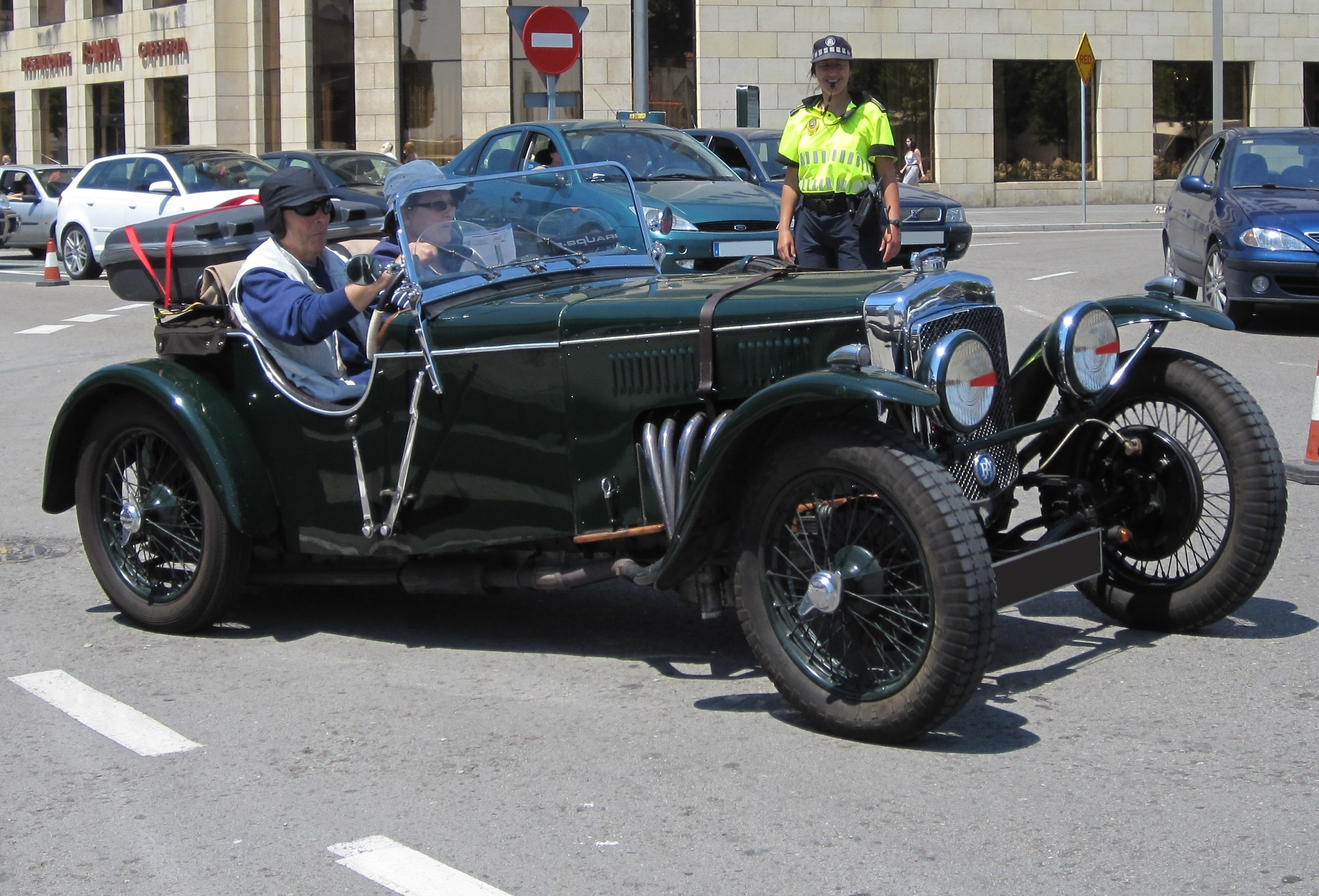 Just like with the other, not possible to check the exact year on DVLA.